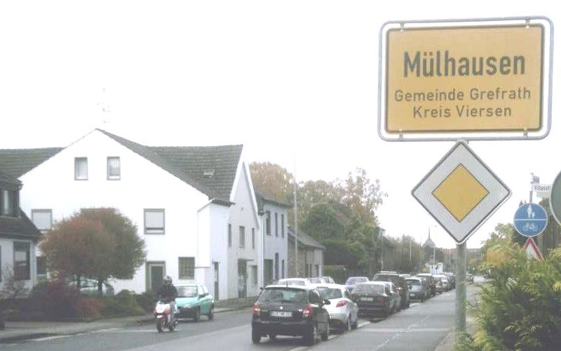 Mülhausen, Grefrath, Germany